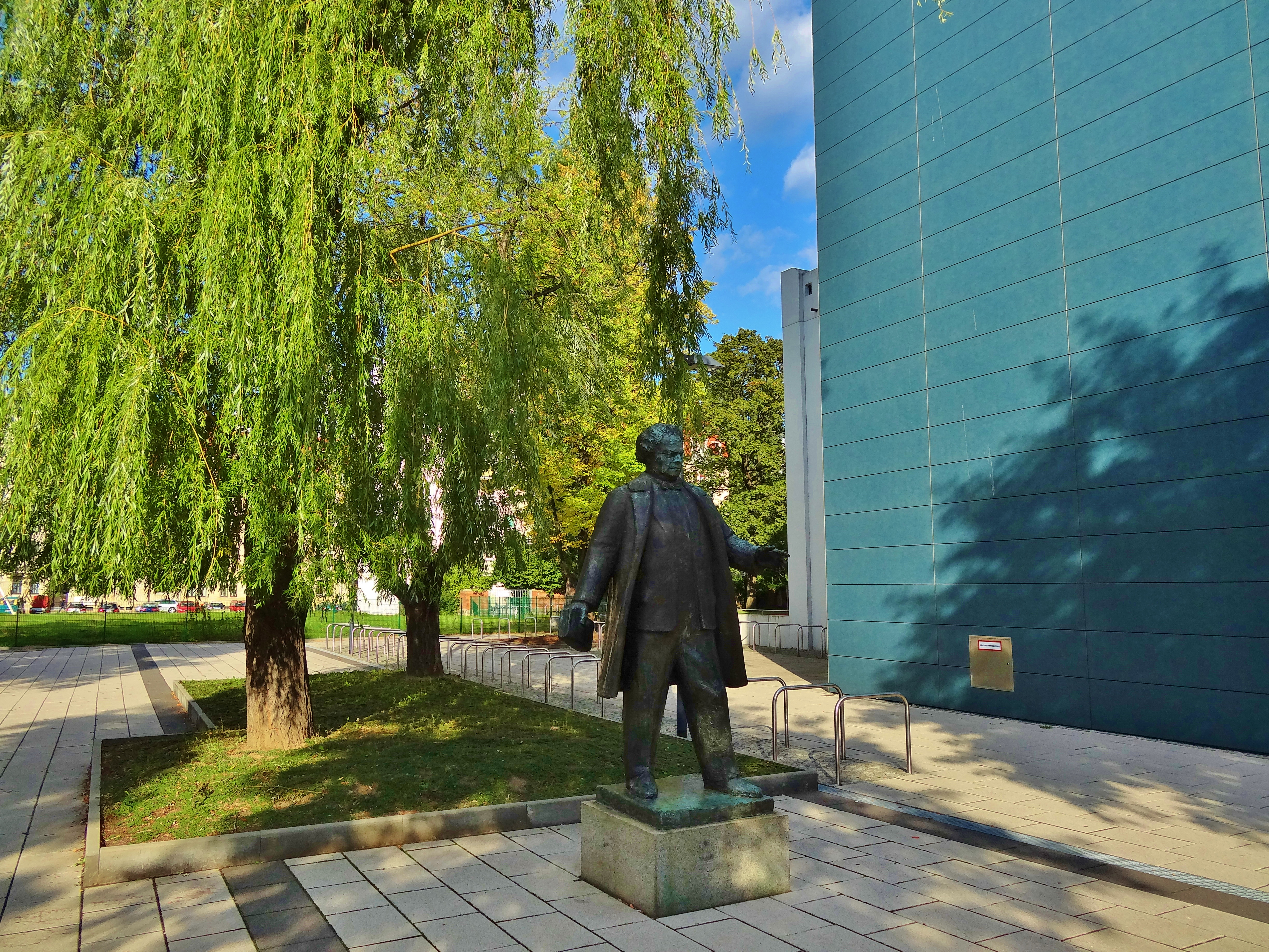 The house Haydnstraße 49 in Dresden. In the district you have many cats on the streets. cars blocking the view mostly. Many plants are here and among them trees. Kindergartens, churches are in the near as well. The most traffic is caused by employees from the near of Dresden and not by the owners renters here. Often you have no traffic and suddenly comes a car around the corners with too much speed. After the renovation of the houses here are too less or none swallows. The swans, ducks, gulls, doves ... are mostly at the Loschwitzer bridge. Steamers you can see or use as public transportation. You have seldom a police car here. Here are living more state clerks than rich or genius. Ministers and other well known politicians you can meet here in their leisure time. Noticeable is that here is being created a zone for state clerks. A wonder is that anybody knows this place and the UNESCO means that this huge area of Villas and heritage monuments would be too banal as World Heritage Site. The UNESCO is ruled by the GB, USA, FRA, RU states.